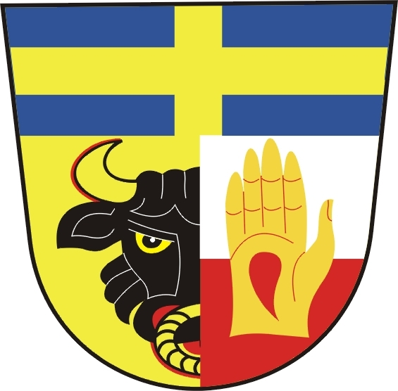 Flag of town Beňov, Přerov district, region Olomouc